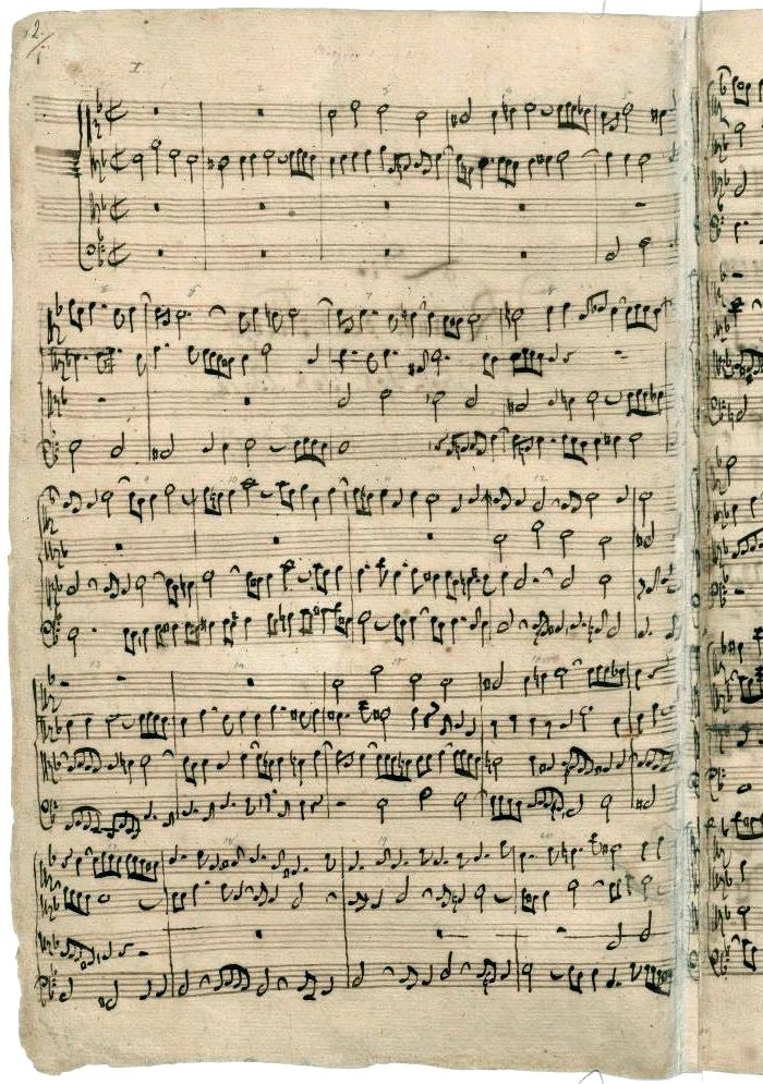 The first page of the manuscript of the "Contrapunctus 1", from "The Art of Fugue" BWV 1080 by Johann Sebastian Bach.